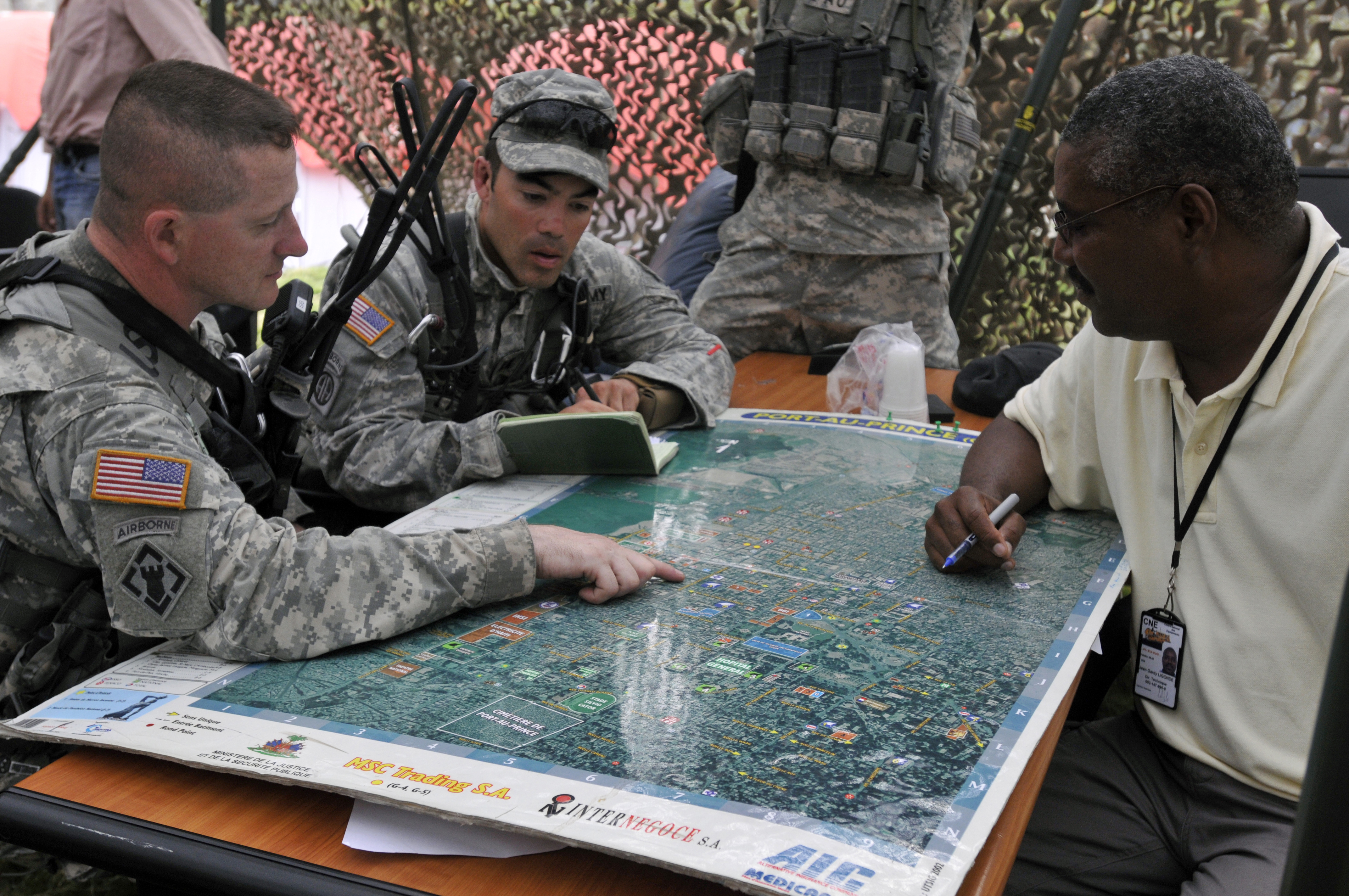 Maj. Richard Ojeda, operations officer, left, and Cpt. Sean Shields, commander of A Co., center, both assigned to 2nd Brigade Special Troops Battalion, 2nd Brigade Combat Team, 82nd Airborne Division, look at a map of Port-au-Prince, Haiti with Ligonde Gardye, Operations Manager of the Center of National Equipment on Jan. 26. The 2BSTB soldiers are working with CNE to remove rubble from the streets of the city, making it easier to distribute aid to local citizens. Unit: 2nd Brigade Combat Team, 82nd Airborne Division Public Affairs